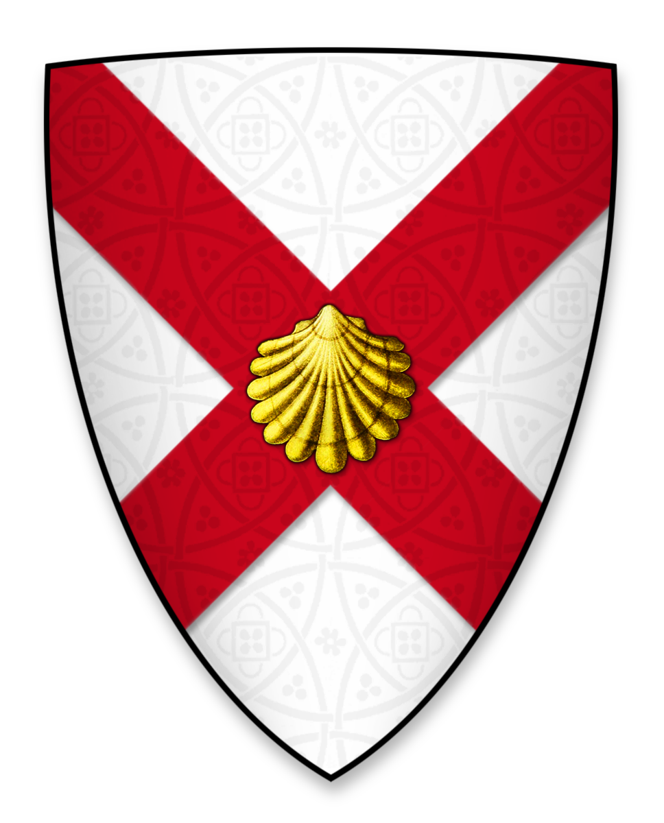 Arms displayed by Benedict of Sausetun, Bishop of Rochester, at the signing of Magna Charta